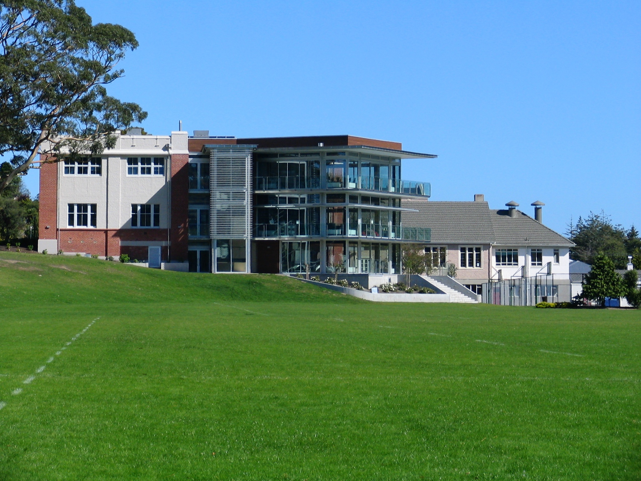 John McGlashan College, Dunedin, New Zealand, looking across the school playing field from Cannington Road.